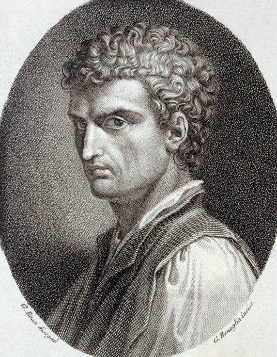 Leon Battista Alberti (February 18, 1404 – April 20, 1472). Published in ALBERTI, Leon Battista (1804) Della pittura e della statua, Societa Tipografica de' Classici Italiani, Milano [1]